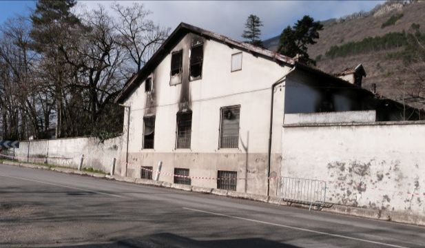 South wing of the convent of Visitation Sainte-Marie (in Vif, France), part the most affected by fire